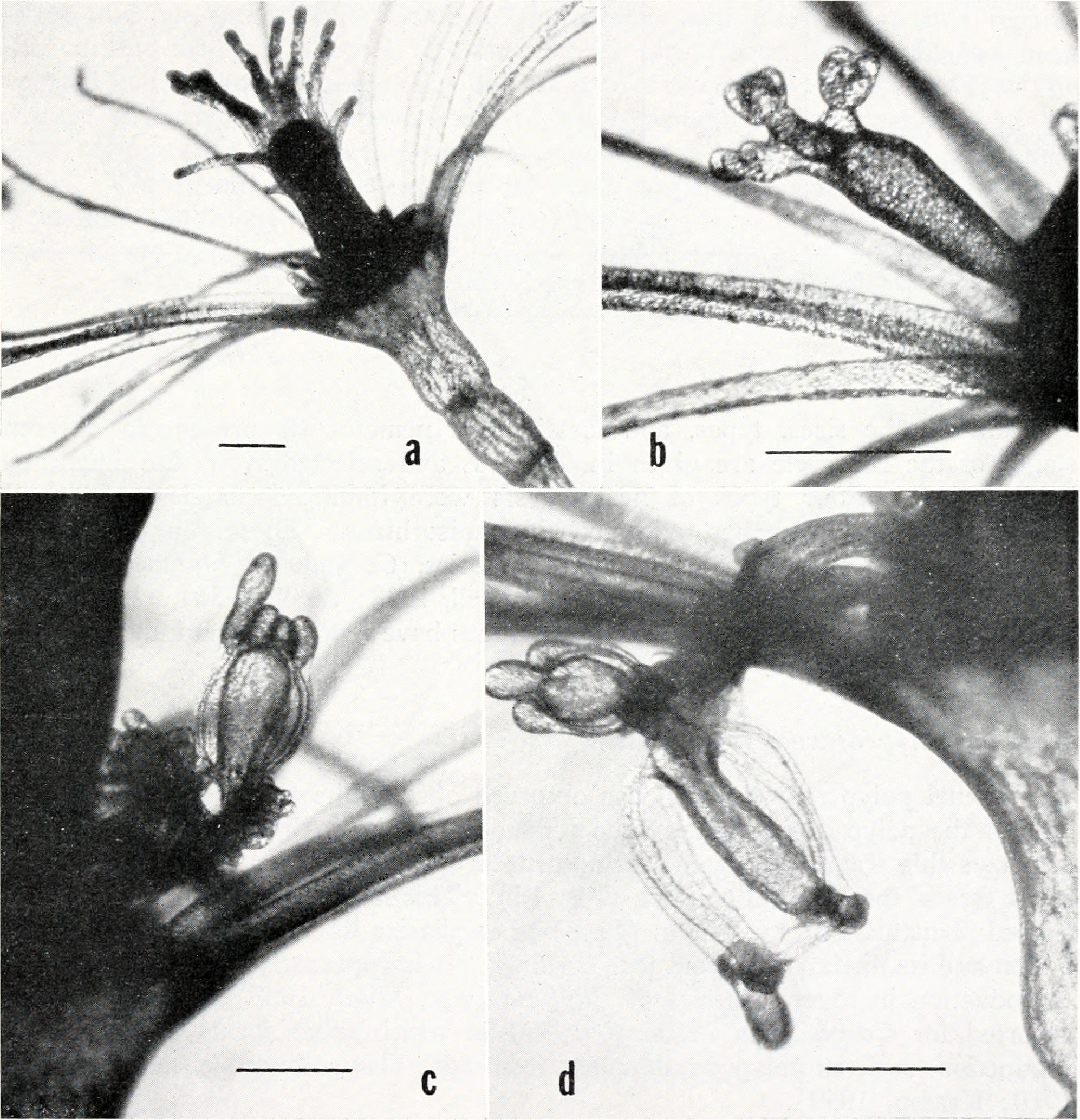 Development of the gonosome of Corymorpha bigelowi Title: The Biological bulletin Year: [1] (s) Authors: Marine Biological Laboratory (Woods Hole, Mass. ); Marine Biological Laboratory (Woods Hole, Mass. ). Annual report 1907/08-1952; Lillie, Frank Rattray, 1870-1947; Moore, Carl Richard, 1892-; Redfield, Alfred Clarence, 1890-1983 Subjects: Biology; Zoology; Biology; Marine Biology Publisher: Woods Hole, Mass. : Marine Biological Laboratory Text Appearing Before Image: LIFE CYCLE OF CORYMORPHA BIGELOWI 491 seen to feed on brine shrimp nauplii and did not live for more than a few days. The newly released medusae are similar in size to the smaller individuals described from plankton collections by Kramp (1928) and Browne (1916). It is of interest to note that in these collections small individuals (1.25 to 1.5 mm high) have subterminal nematocyst bulbs on the primary tentacle which are absent on the newly released Euphysora bigelozvi medusae. In Coryinorpha nutans the annular subterminal bulbs are developed even before liberation from the polyp (Russell, 1953). Text Appearing After Image: FIGURE 2. The development of the gonosome of Corymorpha (= Euphysora) bigclozvi: a, lateral view of the hypostome of a polyp with early gonodendra; b, immature gonophore with inflated pedicel and developing medusa buds; c, medusa buds in advanced state of development (note the enlarged manubrium and primary tentacle) ; d, medusa just prior to release. Scale bar is 0.5 mm.